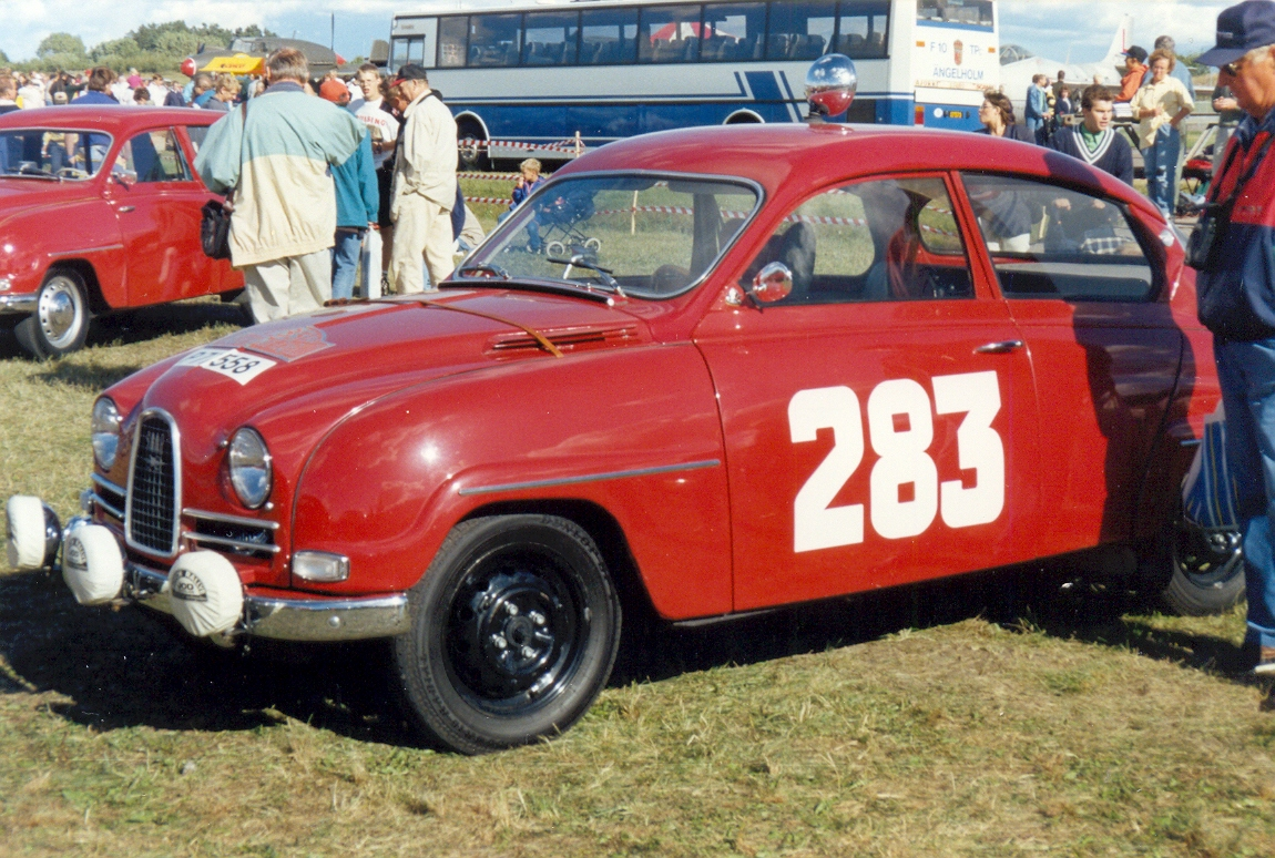 Replica of Erik Carlsson's Monte Carlo winning SAAB 96 (1963)